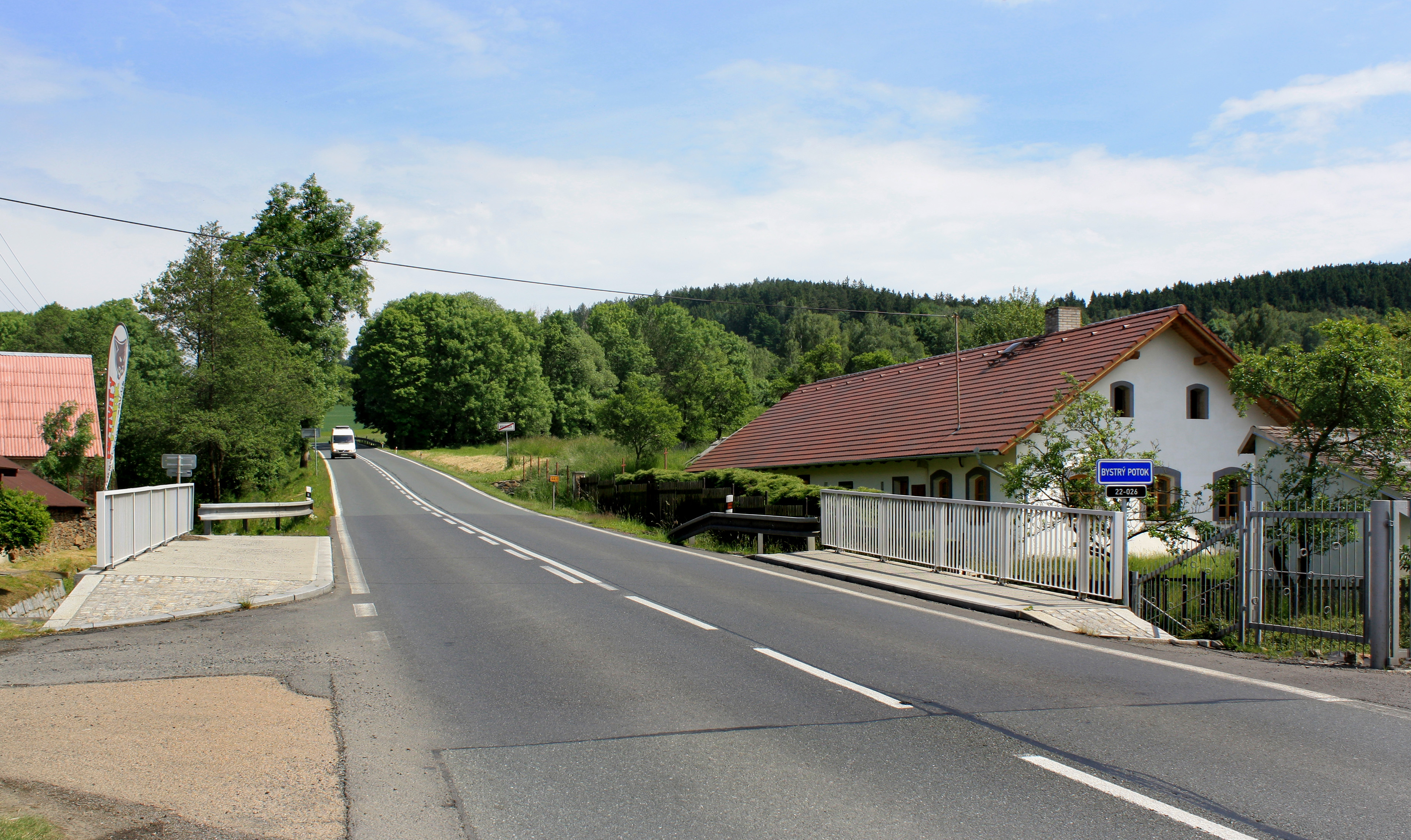 Road No. 22 in Kocourov, part of Mochtín, Czech Republic